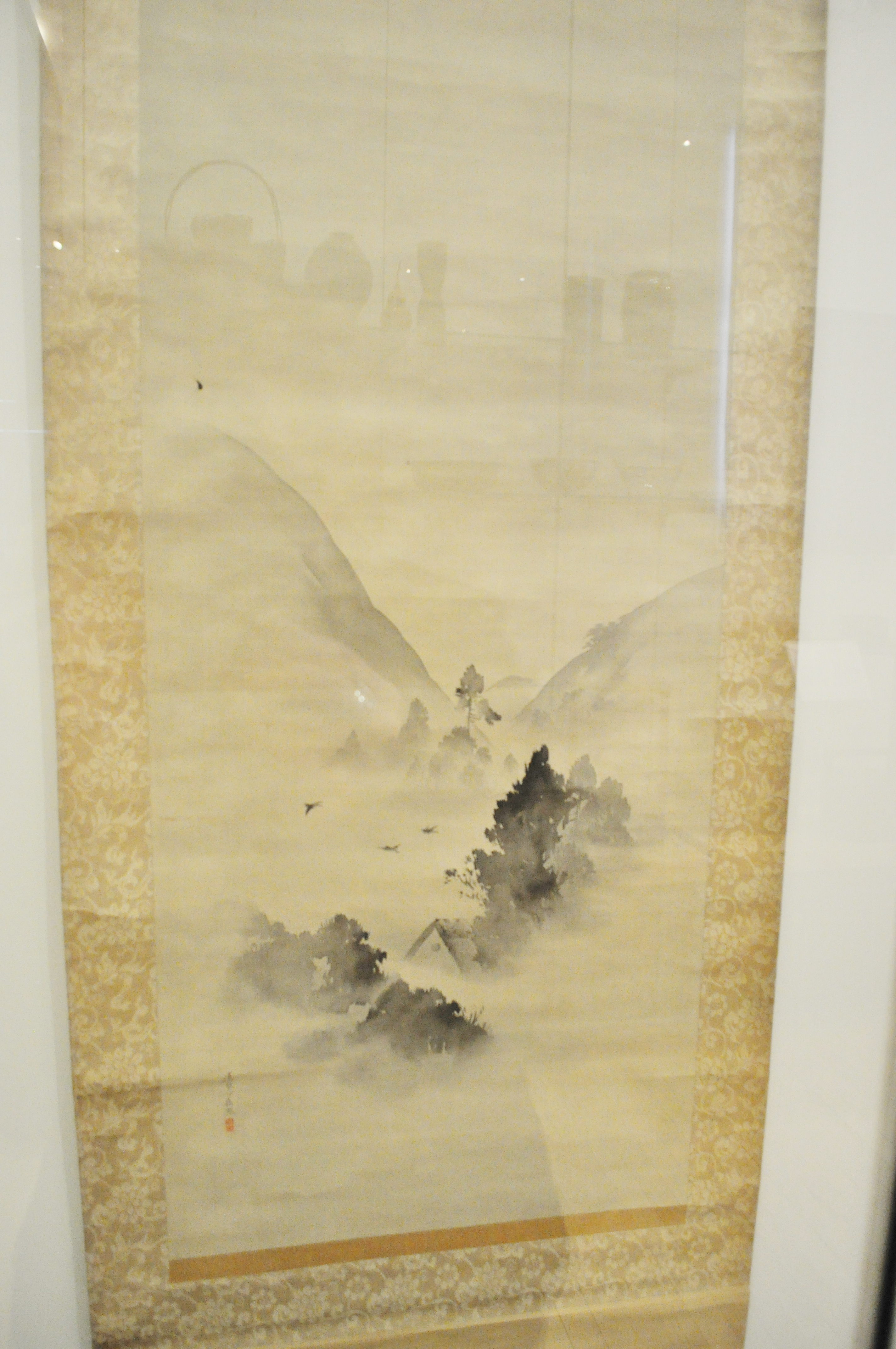 Hara Zaisho's autumn image detail